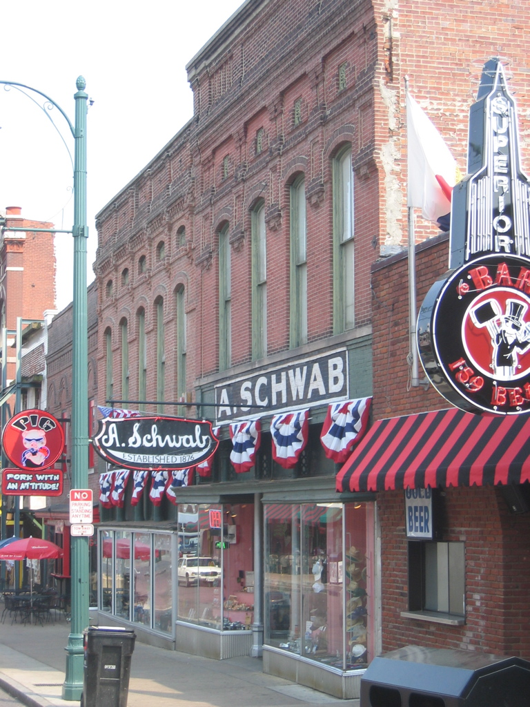 A. Schwab's store, Beale Street, Memphis, Tennessee. Photographed 23 May 2006. © Jeremy Atherton, 2006.